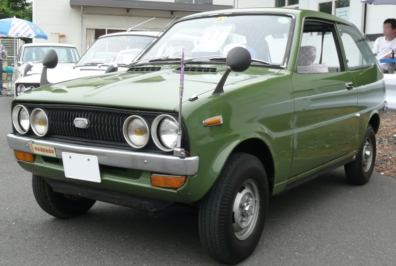 Mitsubishi Minica F4.